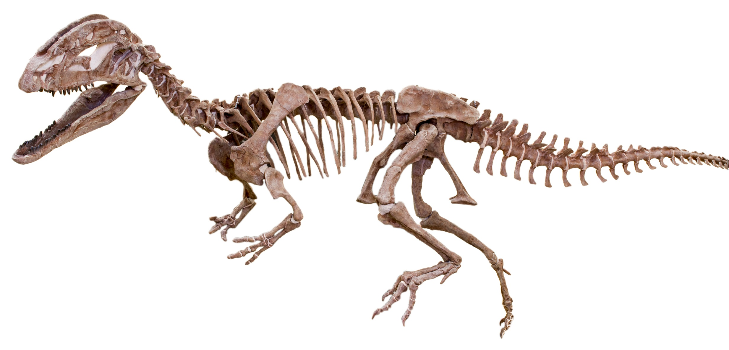 Replica.